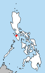 Distribution of the rodent Anonymomys on Mindoro, Philippines.